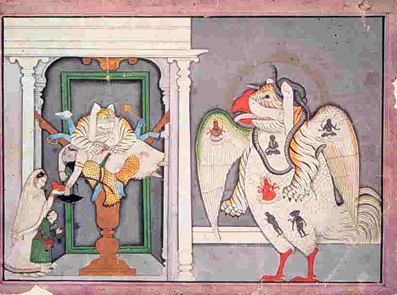 Painting of Narasimha, Pahari/Kangra School, ca. 18th century, with image also of Shiva as Sarabha